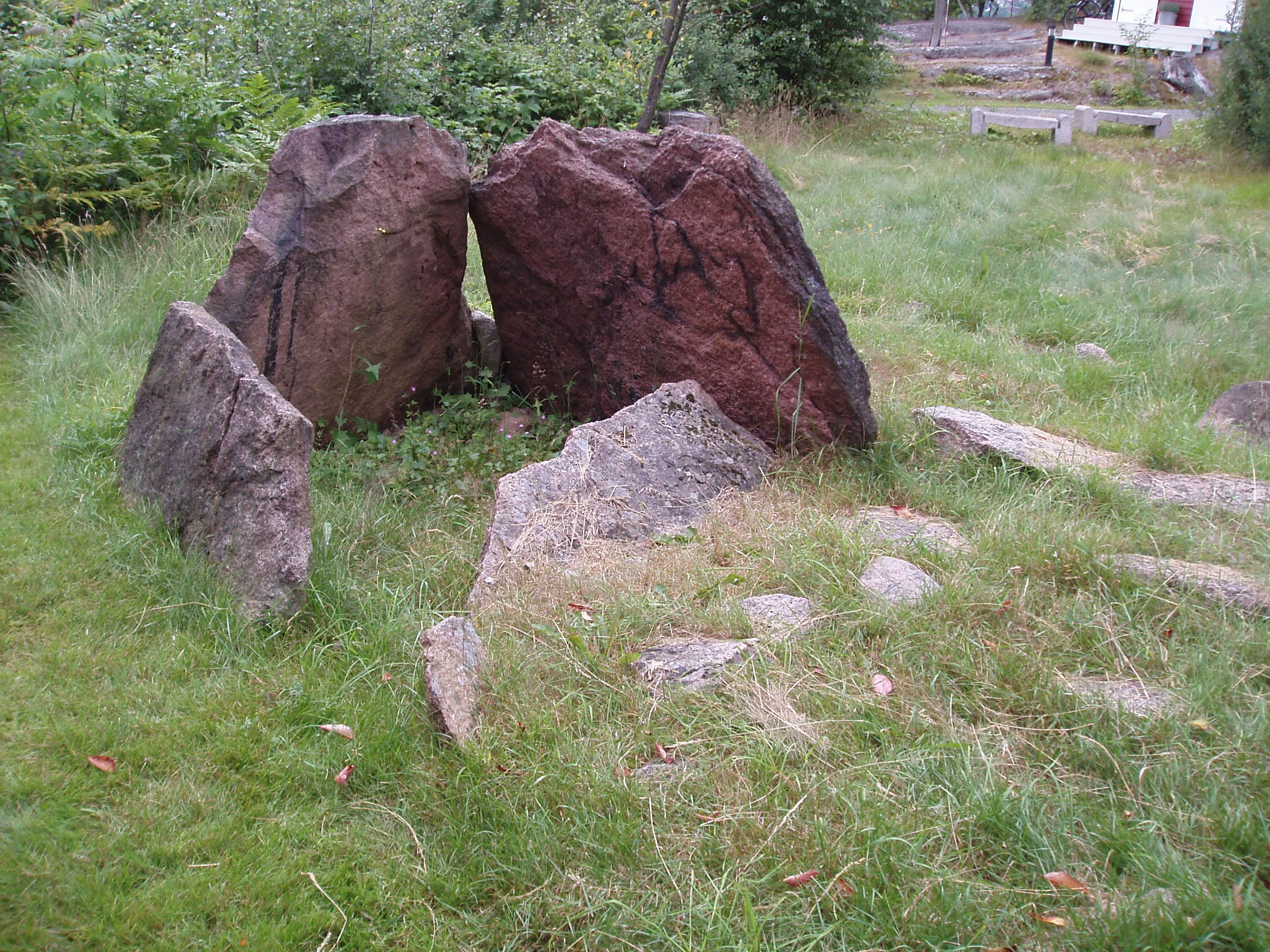 Dolmen at Rødtangen in Hurum, South Norway - erected between 3600 and 3250 BC.